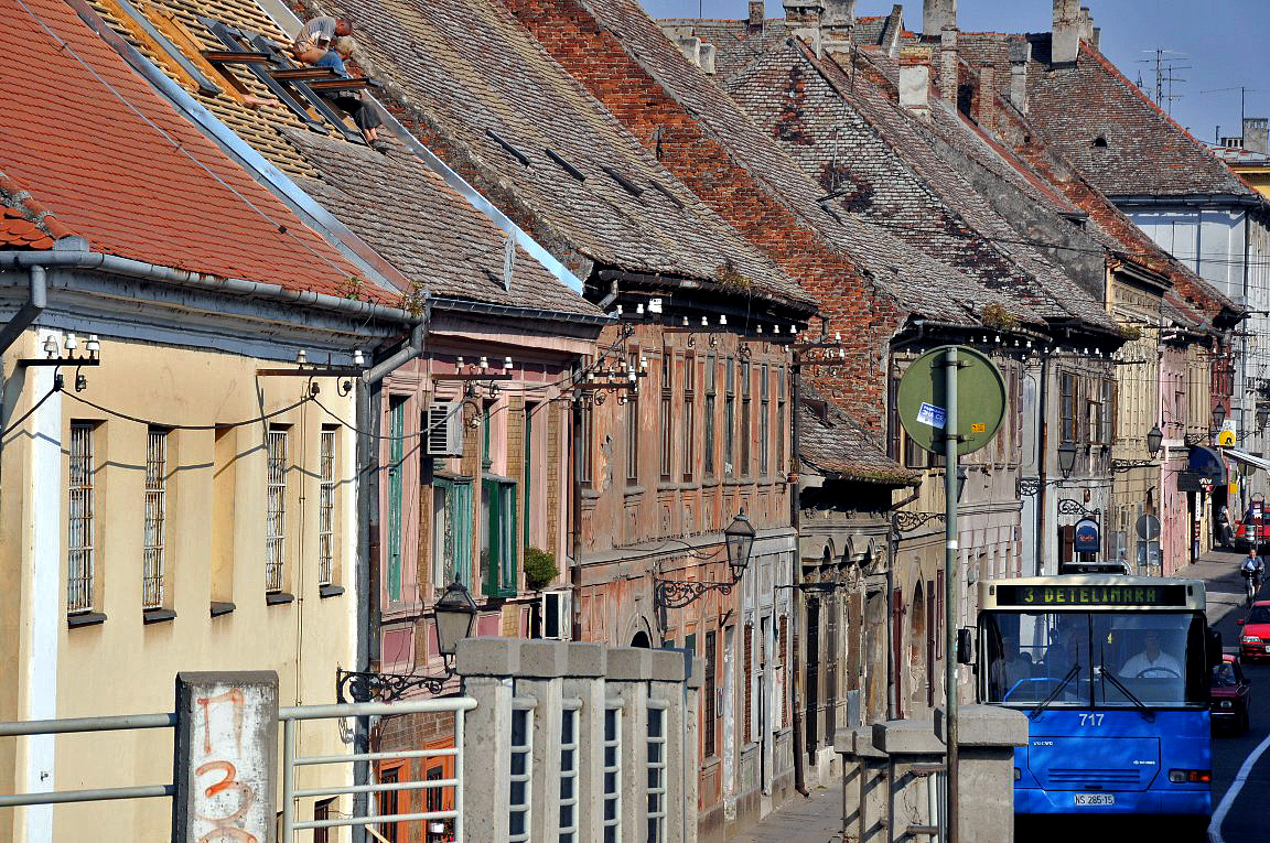 Detail of Novi Sad